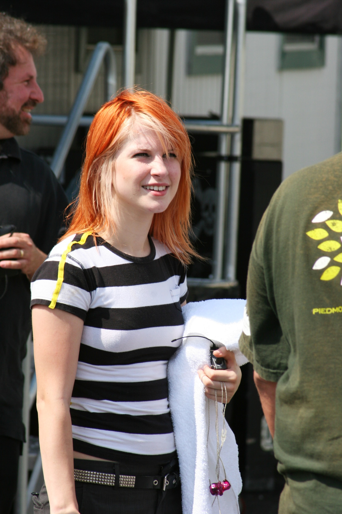 Hayley Williams from Paramore at Virgin Mobile Festival 2008, Columbia, MD on August 2, 2008